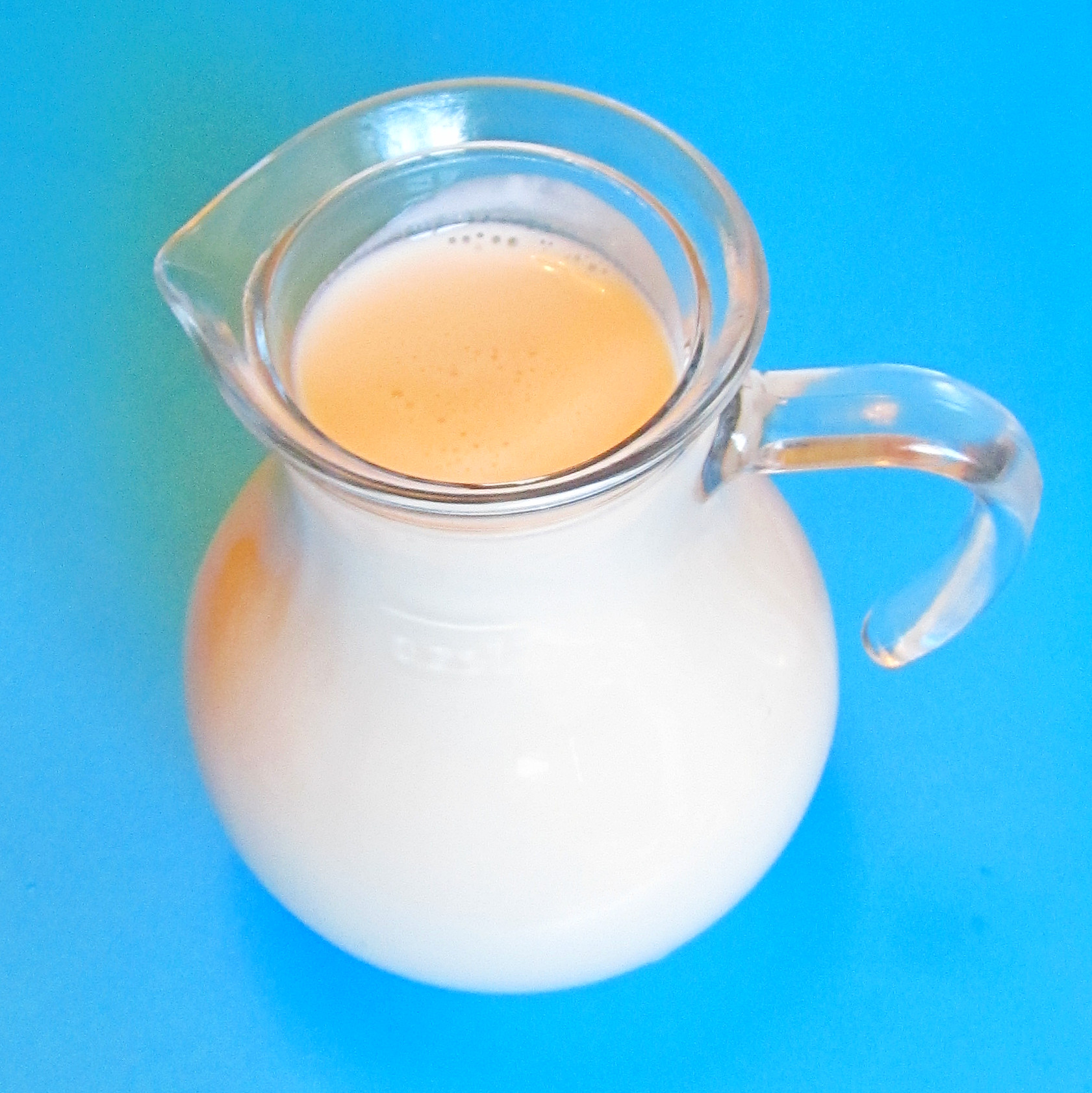 Buttermilk is a dairy drink. Originally, buttermilk was the liquid left behind after churning butter out of cultured cream. This type of buttermilk is now specifically referred to as traditional buttermilk and the fermented dairy product is known as cultured buttermilk.